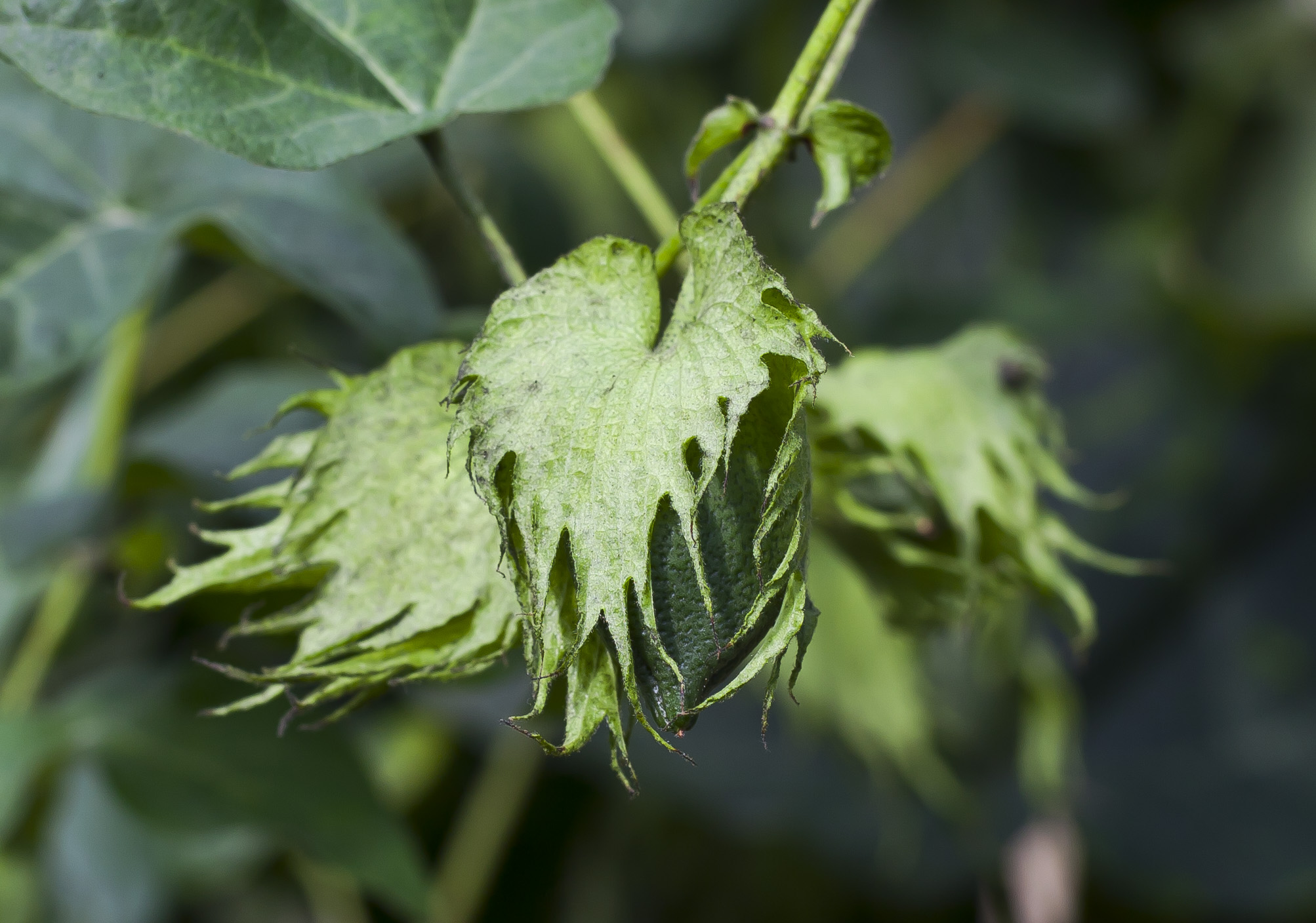 Gossypium arboreum, Tallinn Botanic Garden, Estonia